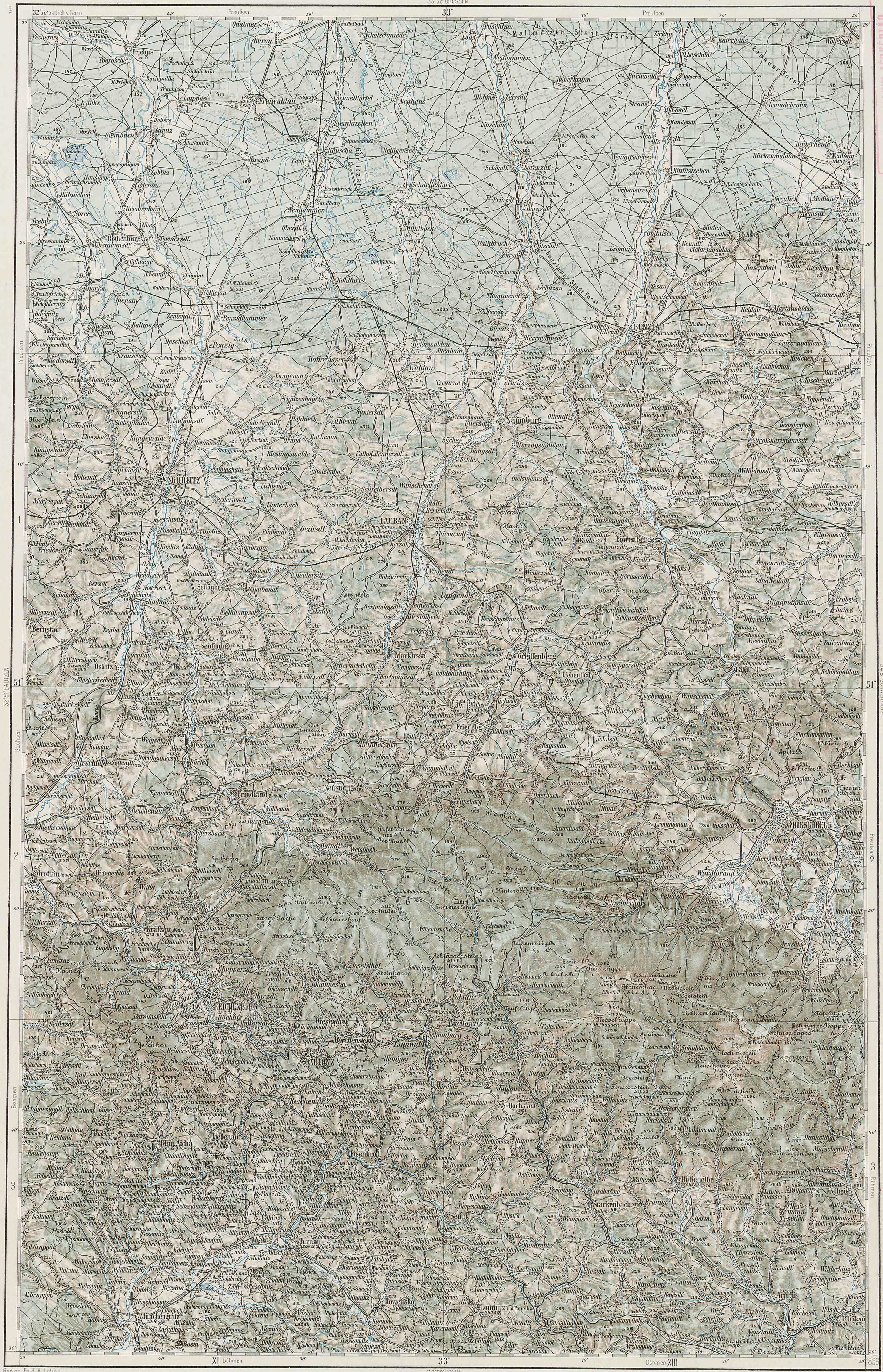 3rd Military Mapping Survey of Austria-Hungary - Reichenberg